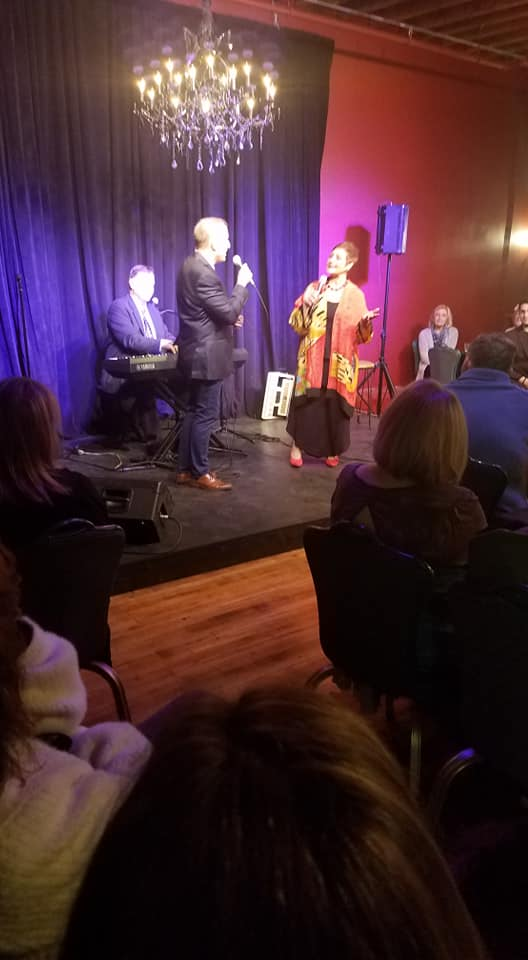 Opening night of The Arctic Playhouse Cabaret Stage